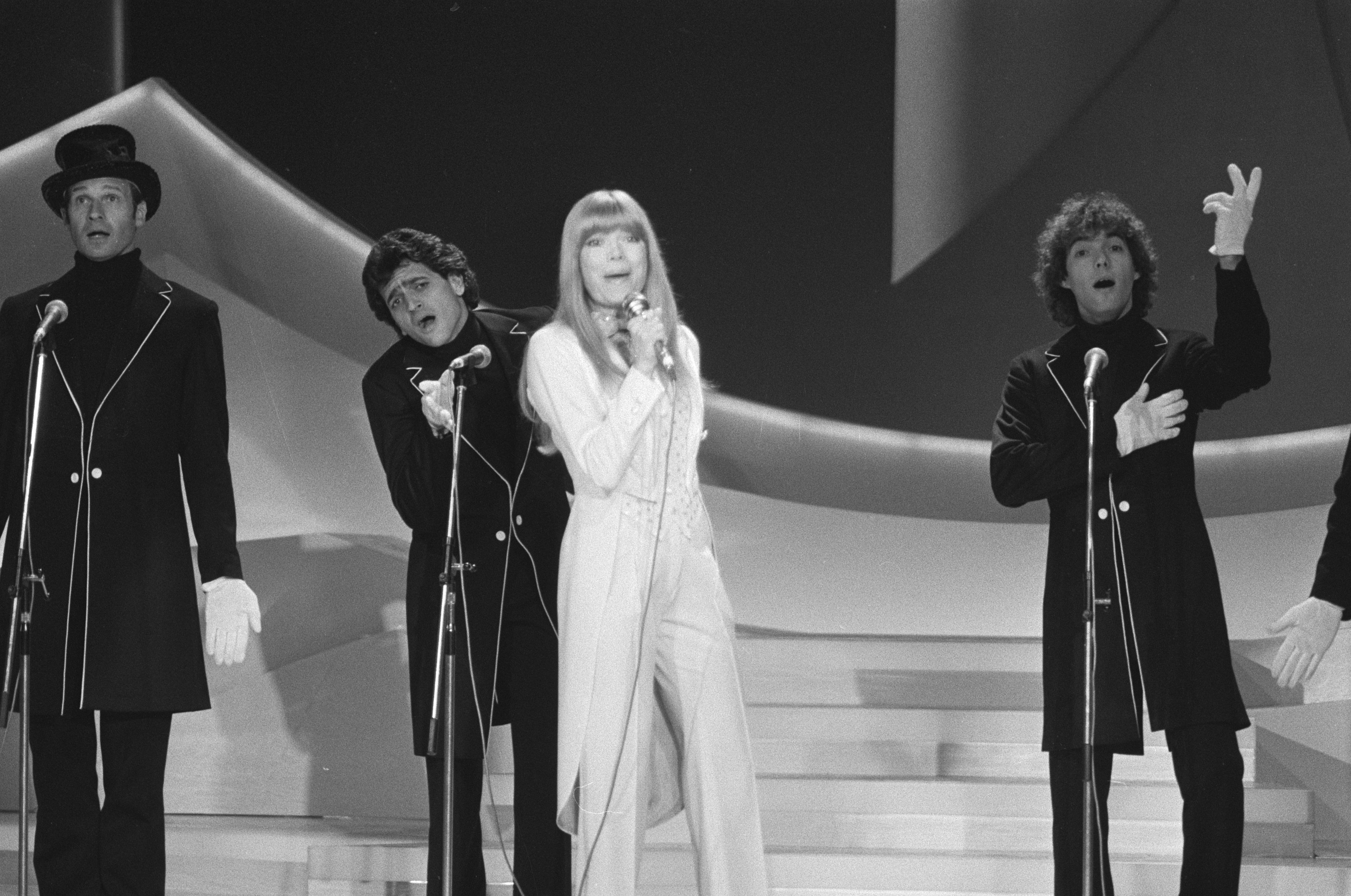 Katja Ebstein during rehearsals for the Eurovision Song Contest 1980